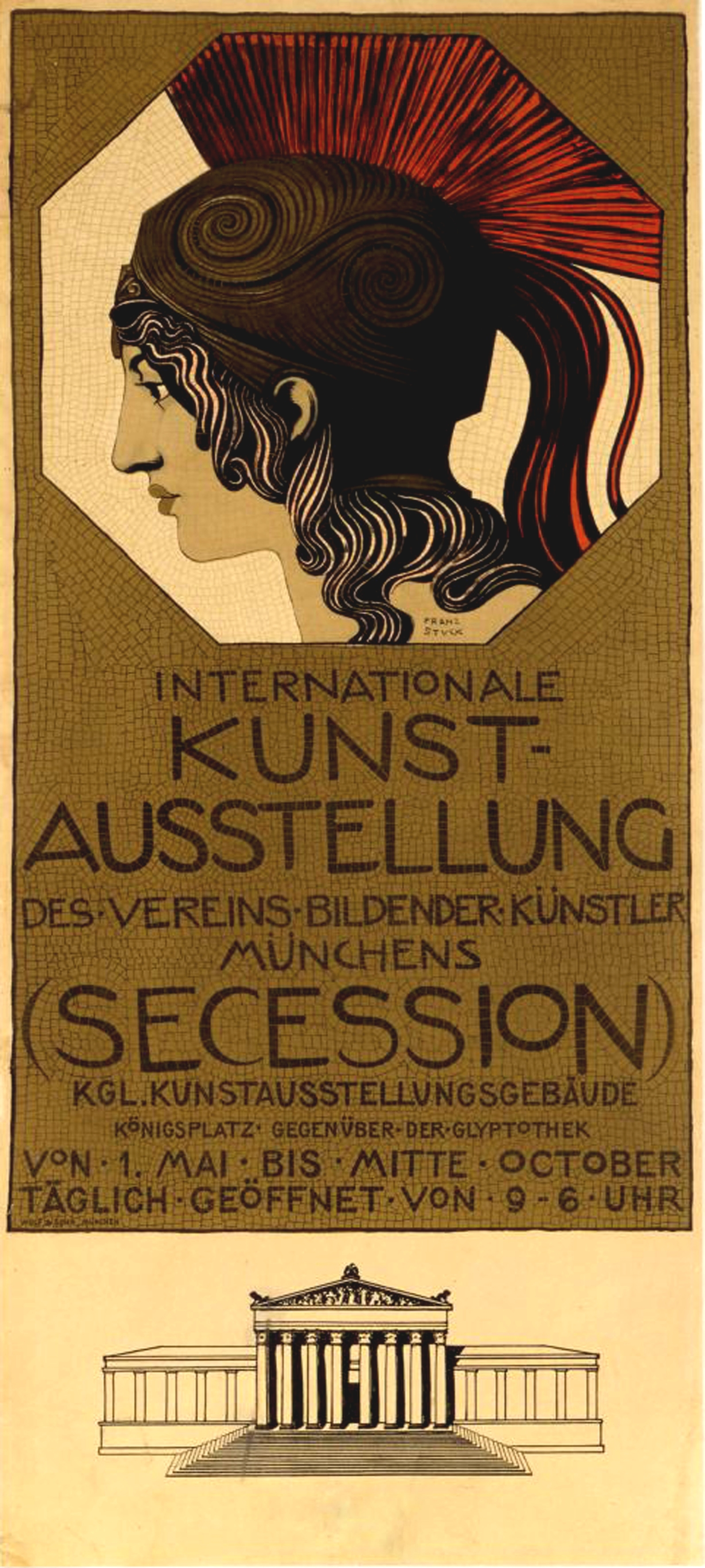 Franz Stuck. Poster of the Munich Secession 1898-1900.